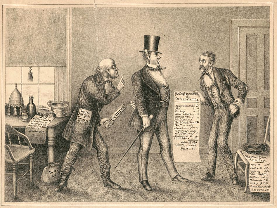 Salary Grab Act cartoon, featuring Horace Greely at left